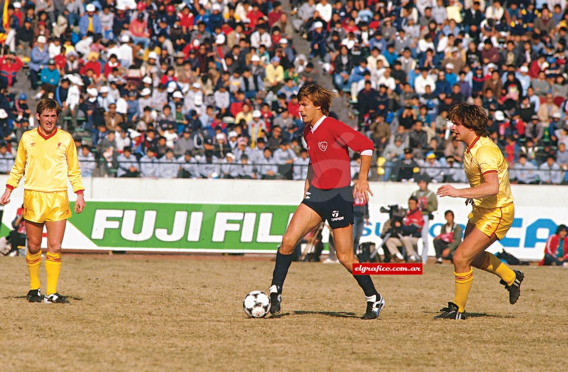 Claudio Marangoni carrying the ball in the Intercontinental Cup final.